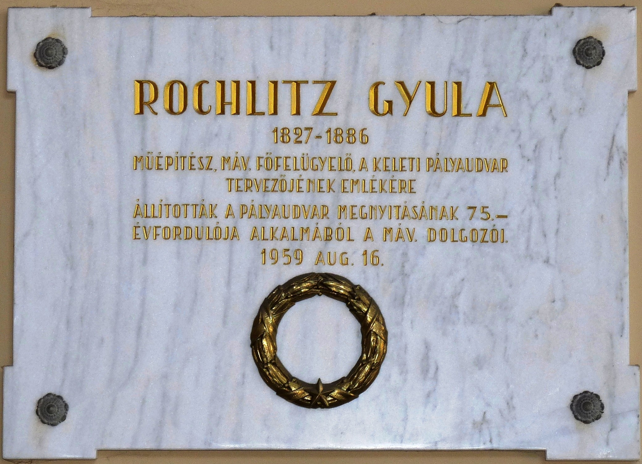 Commemorative plaque to Mr. Gyula Rochlitz (1848–1892) Hungarian architect who designed the building of the Eastern Railway Station in Budapest. It is affixed on the wall of the departure hall of the station. (Budapest, District VIII, Baross Square Nr 11/b).